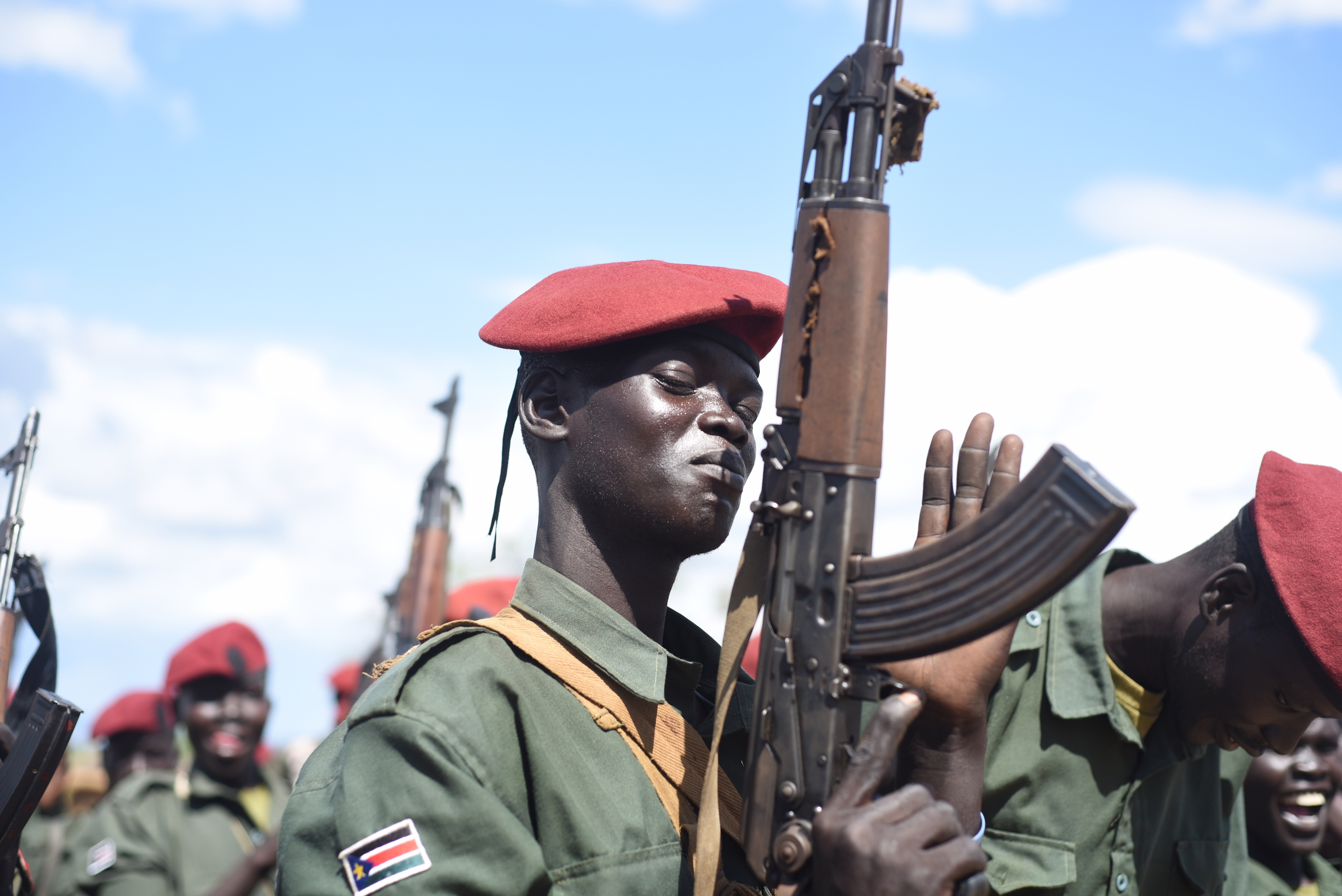 SPLA soldiers near Juba on 14 April 2016.